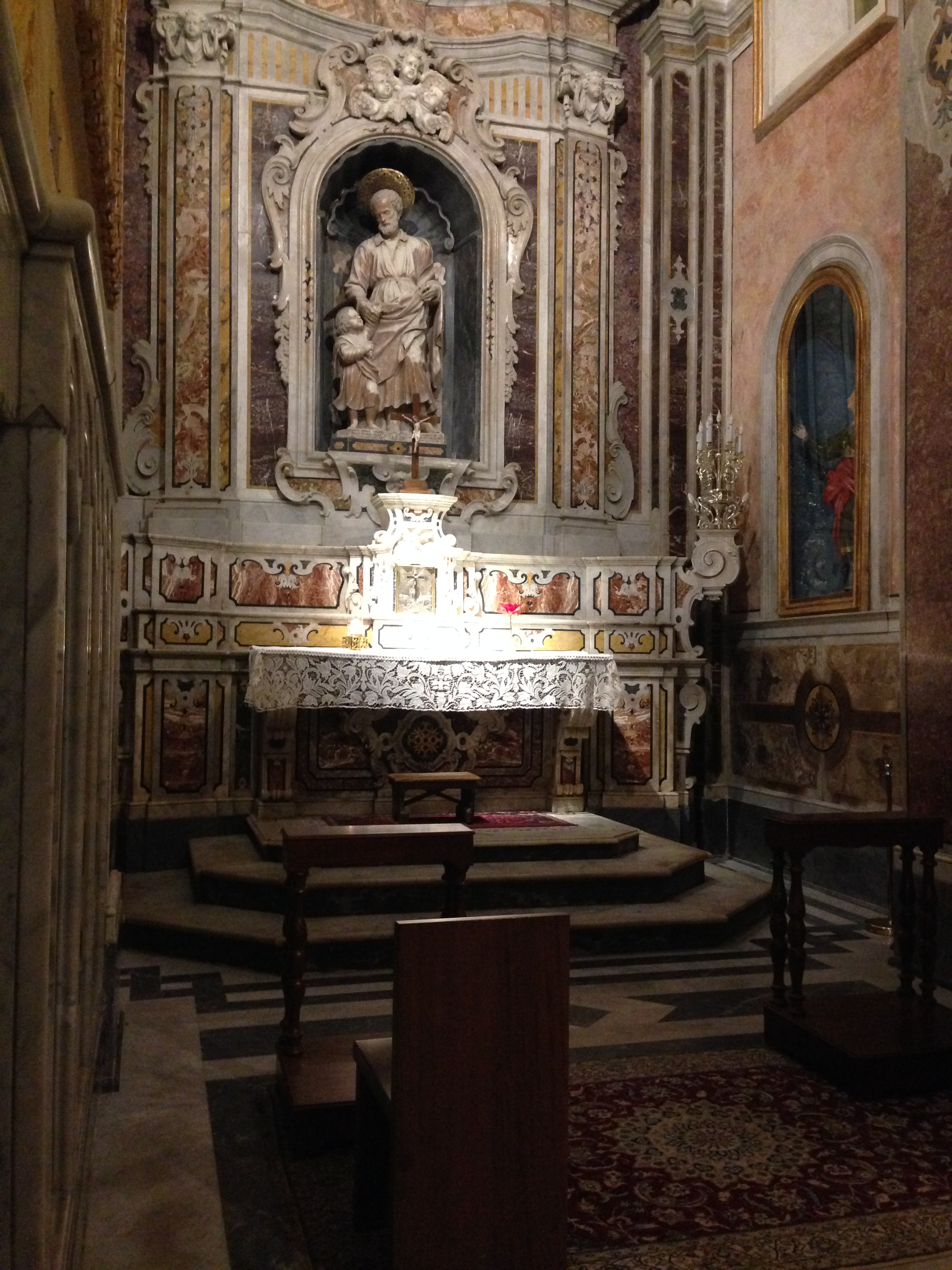 Cappella S Giuseppe - Altamura Cathedral